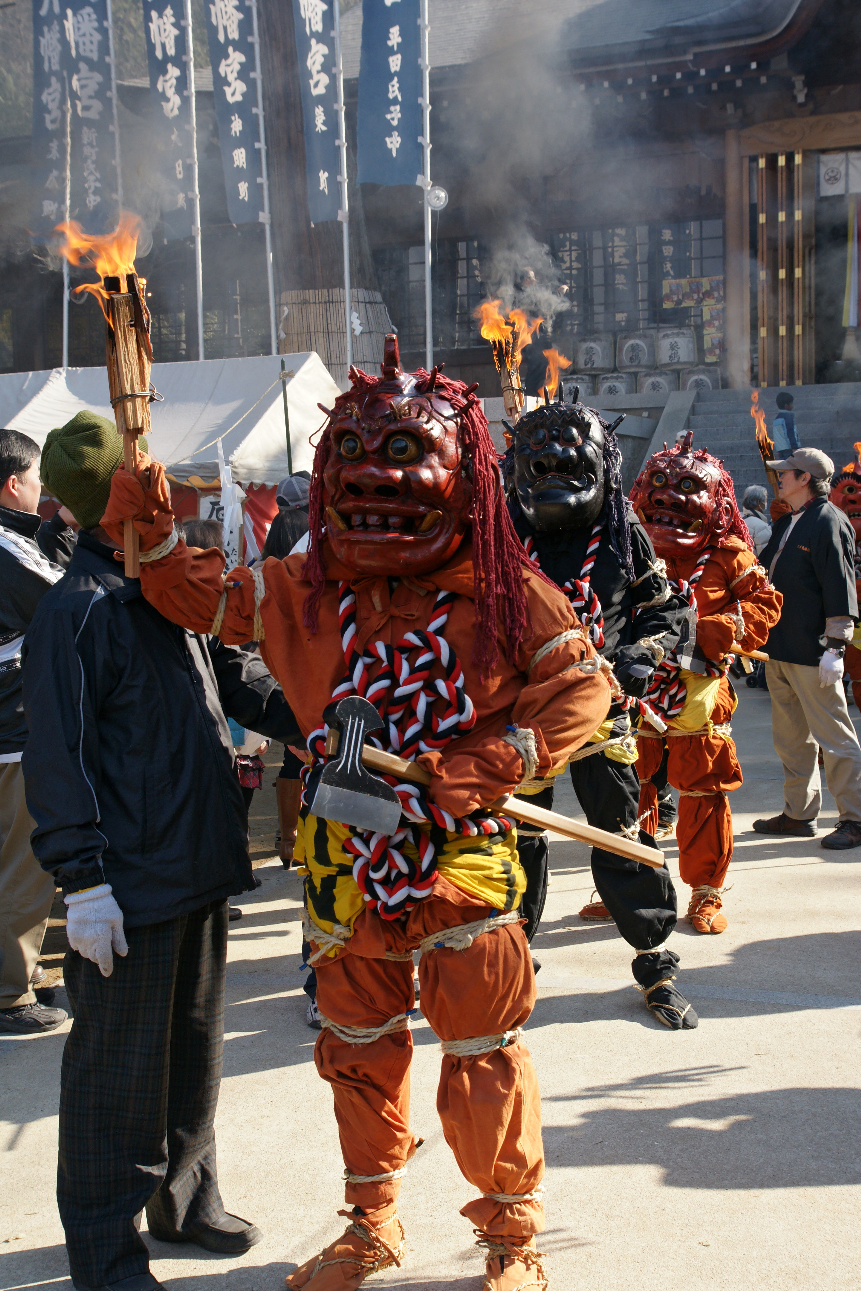 Oni-oi Shiki in Omiya-Hachimangu, Miki, Hyogo prefecture, Japan